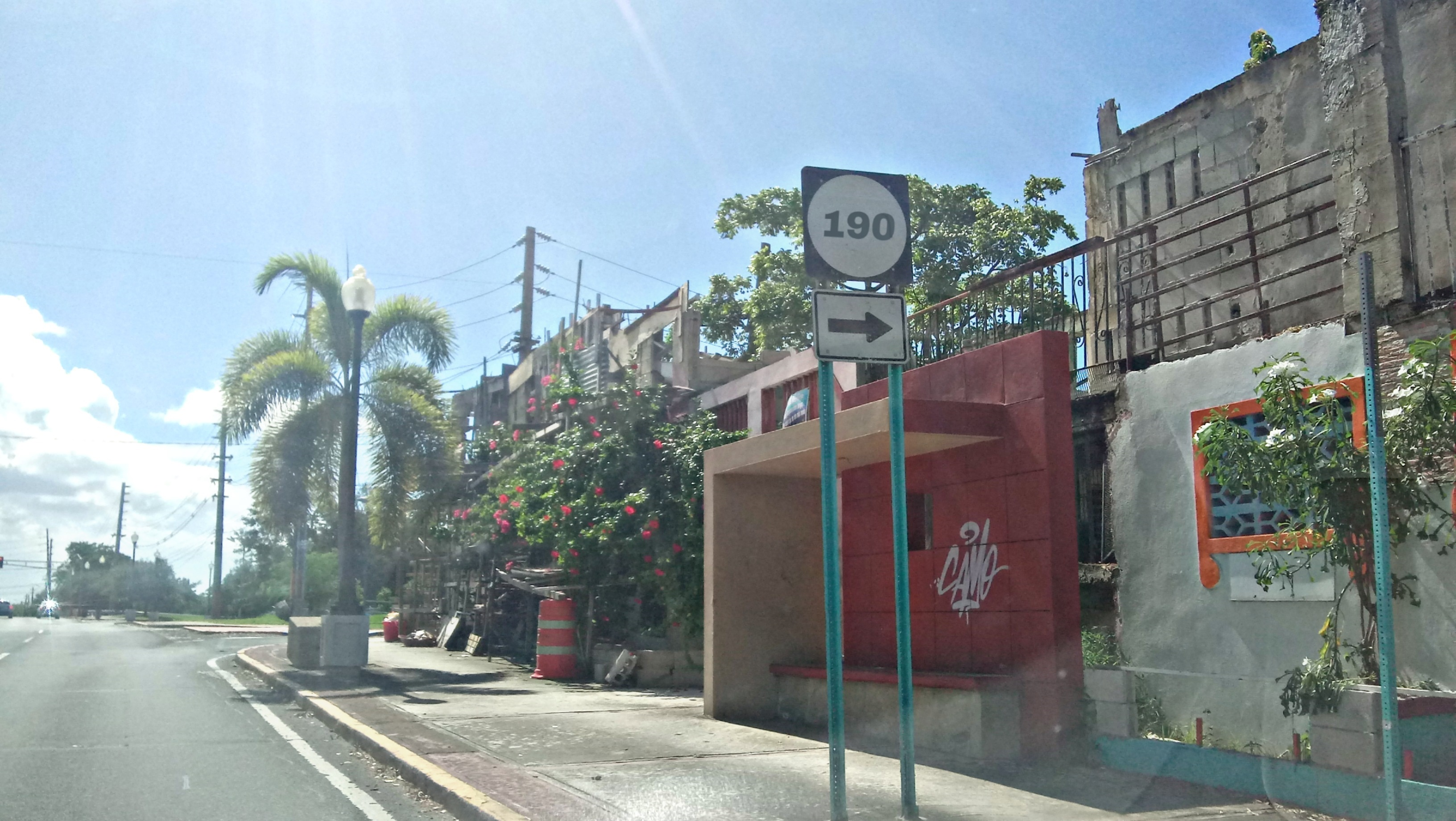 En la Avenida Monserrate intersección con PR-190 en Carolina, Puerto Rico